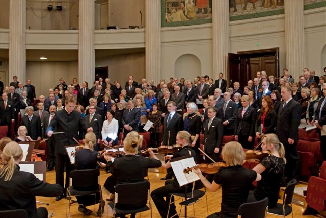 Estonian anthem. Conducting Mikk Murdvee. University of Helsinki